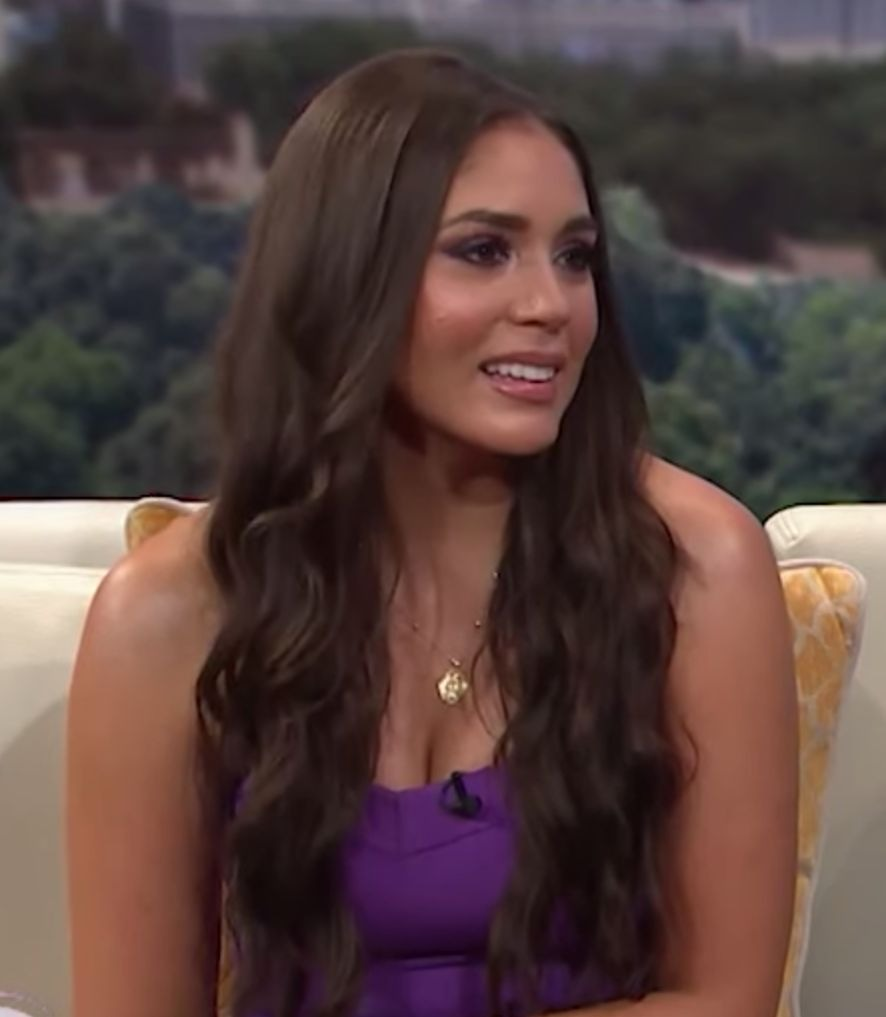 Kendrick Cross and Erica Page Talk Ambitions On OWN